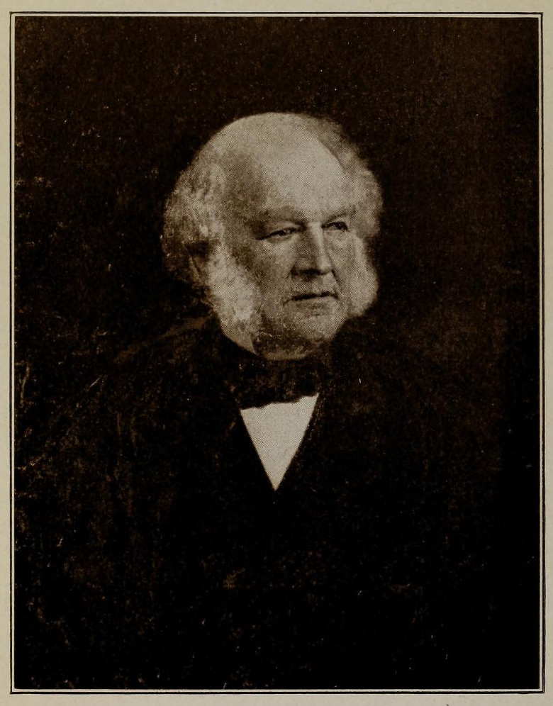 William Taylor Glidden, sea captain, partner in the Glidden & Williams Clipper Chip Line, and investor in western railroads inclusing the Union Pacific